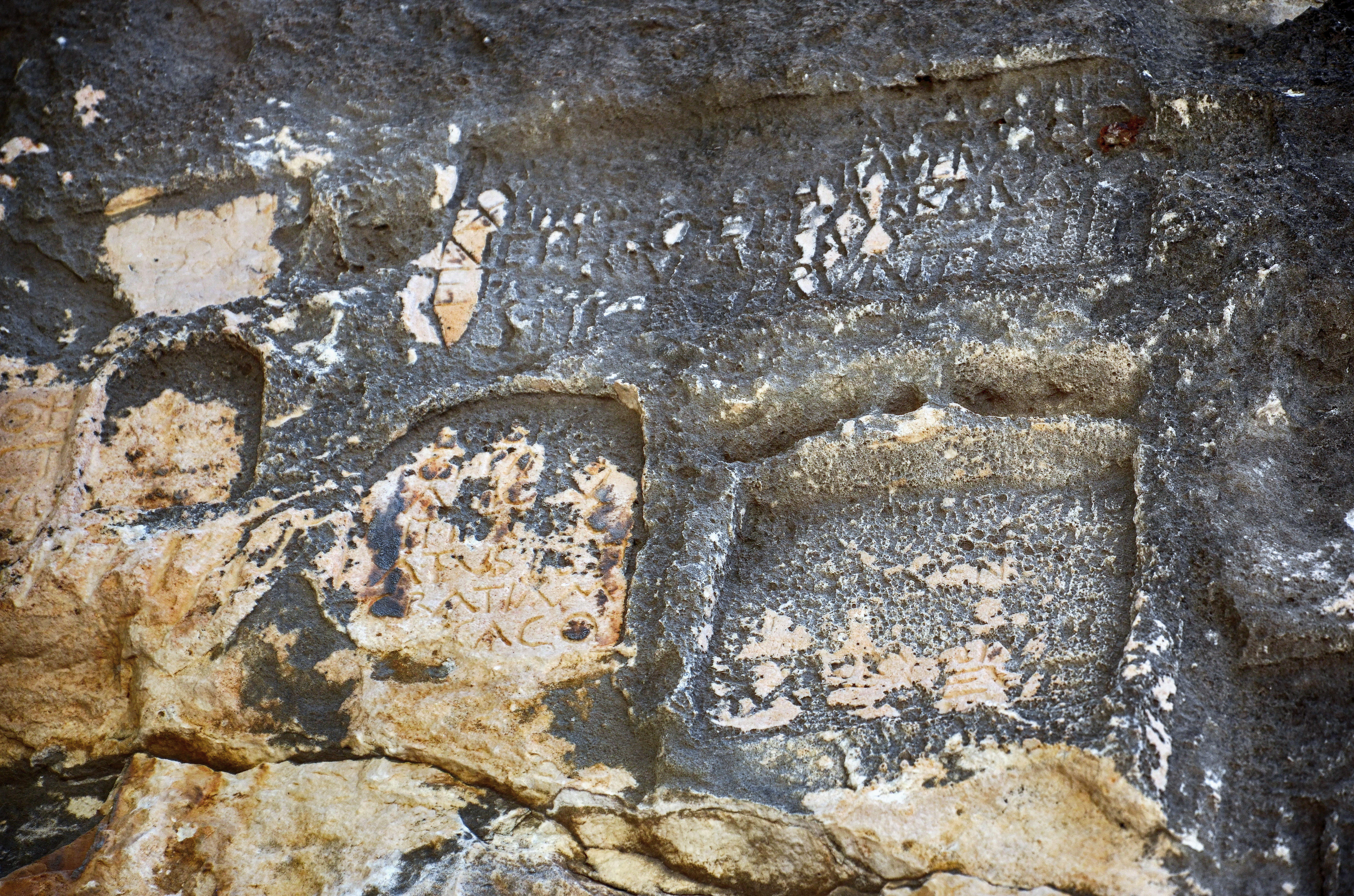 The Grama Bay in Albania